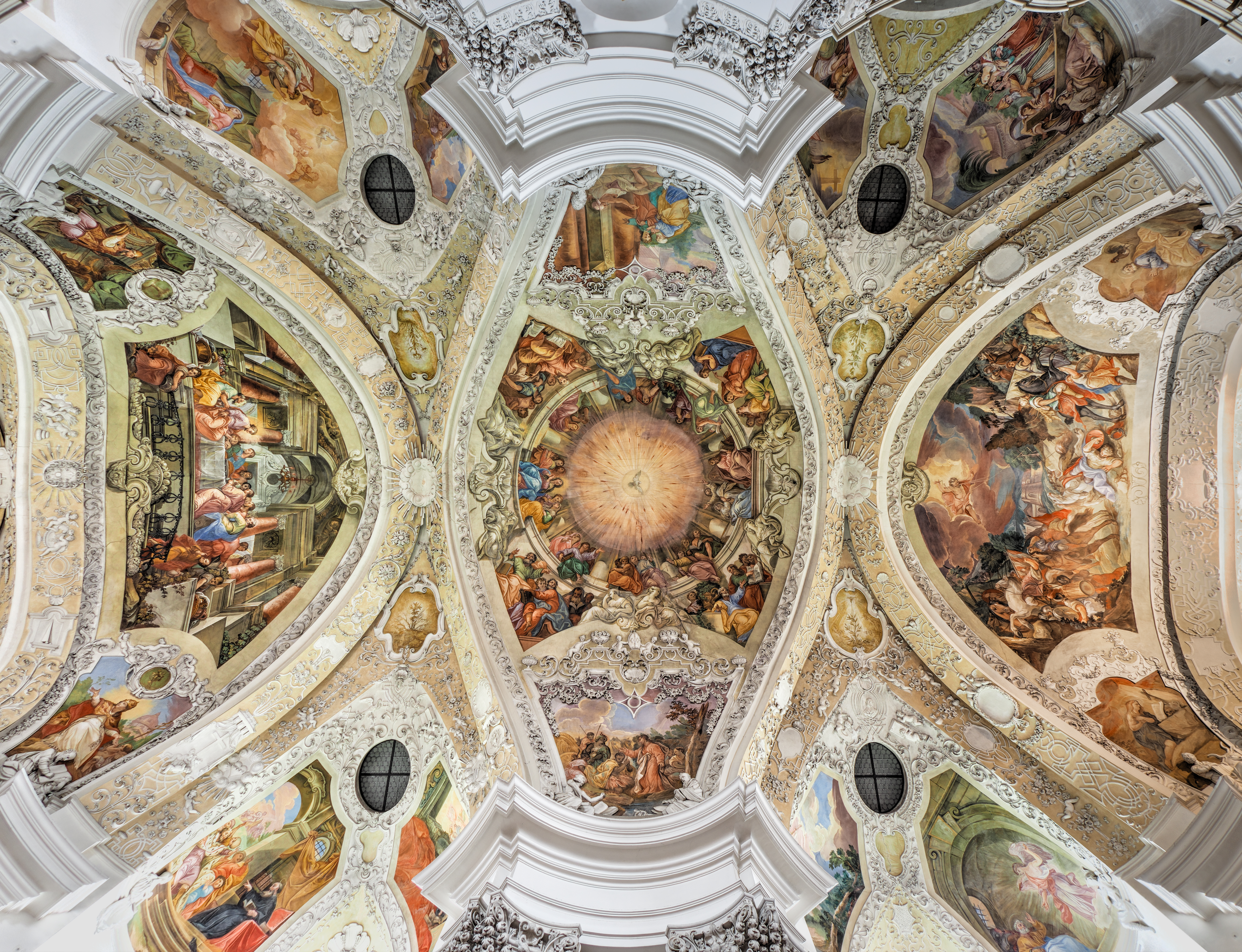 Ceiling fresco in the former abbey church St. Peter and Dionysius Koster Banz created by Melchior Steidl